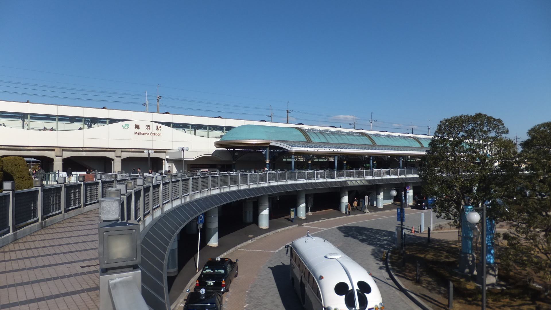 "Maihama Station" on the Keiyo Line, in the city of Urayasu, Japan